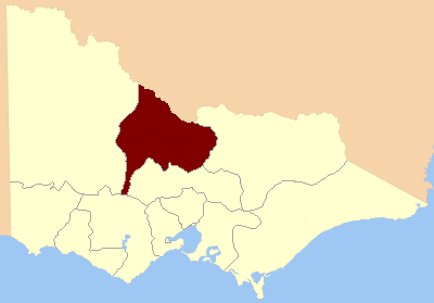 Electoral district of Loddon, Victorian Legislative Council 1851–56